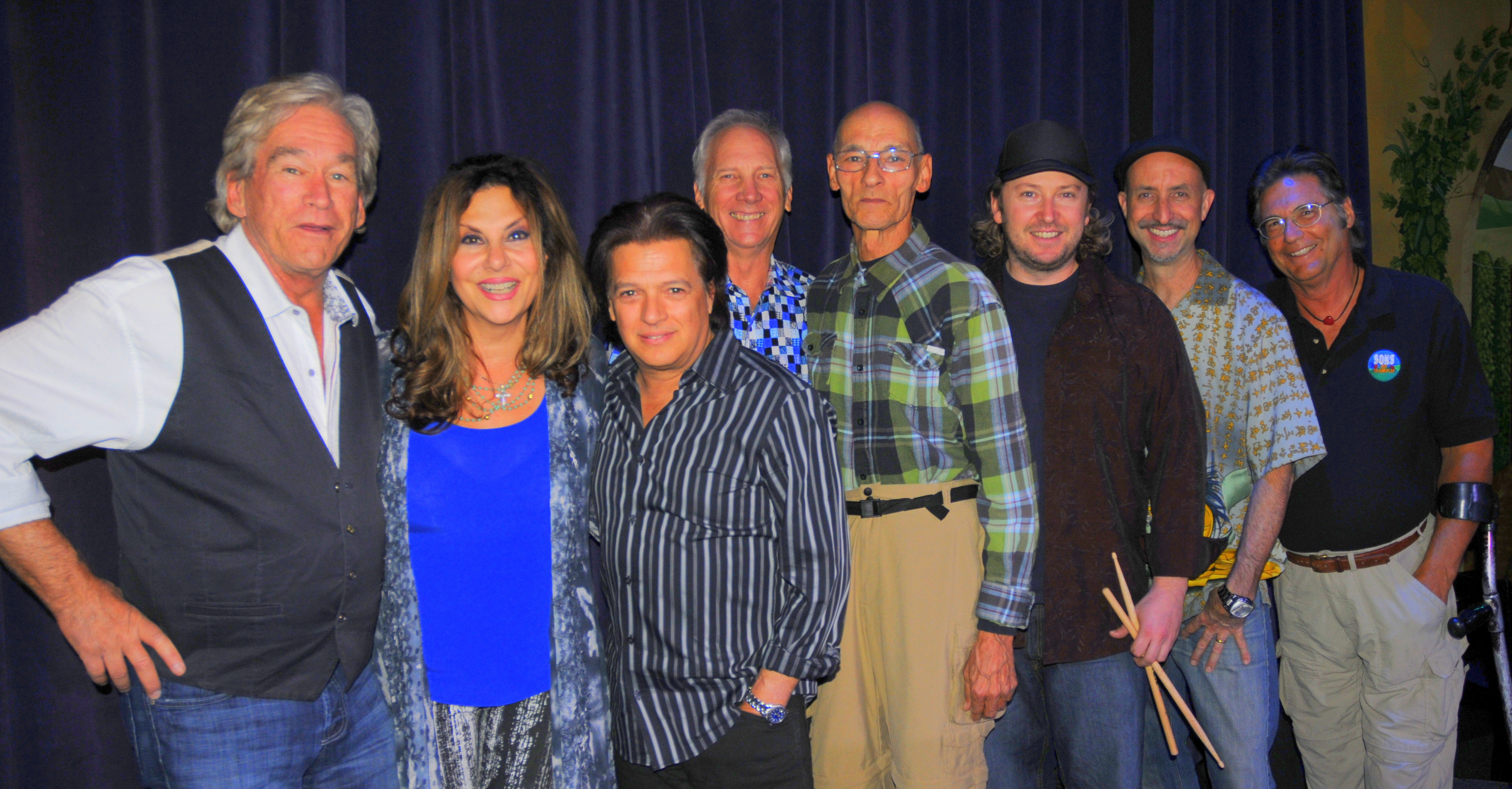 promo shots